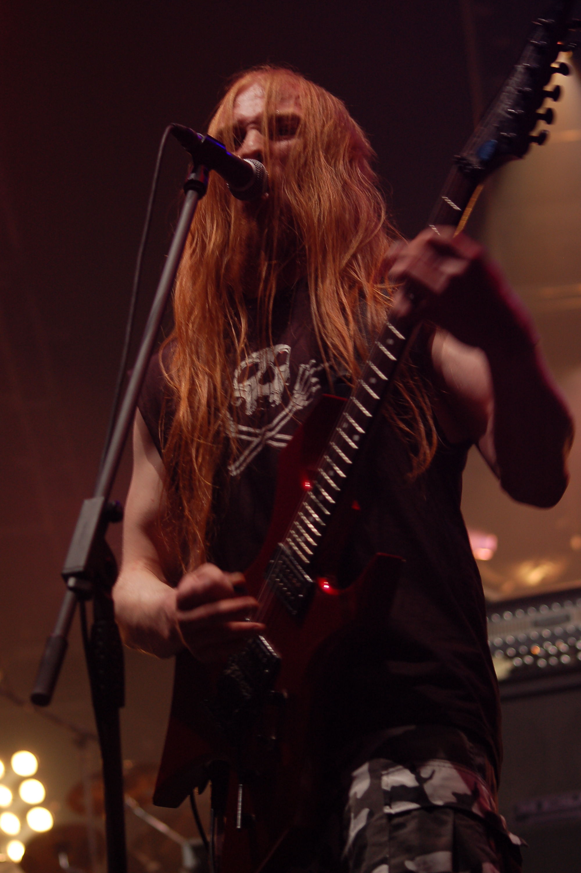 Thor 'Destructhor' Myhren from Zyklon during Metalmania 2007 festival